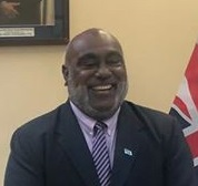 Semi Koroilavesau in 2019